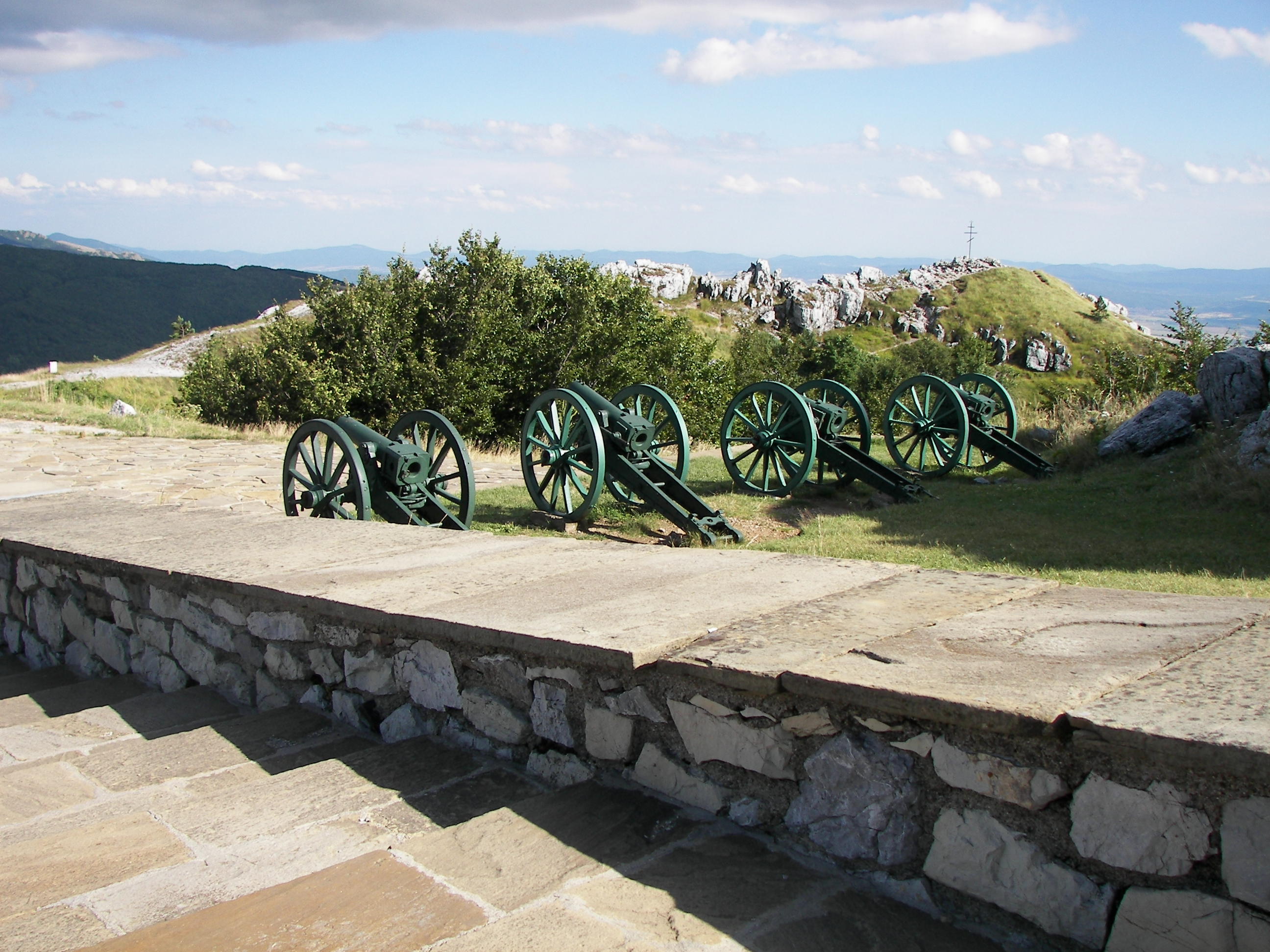 Shipka